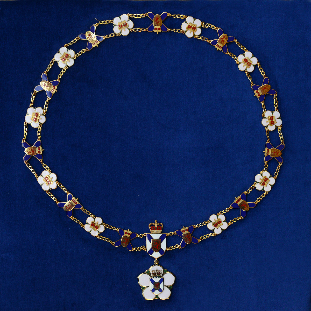 Chancellor's Chain of the Order of Nova Scotia, as worn by the Lieutenant Governor of Nova Scotia who serves as Chancellor of the Order during their time as Lieutenant Governor of the Province. Chain was produced by Pressed Metal Products of British Columbia, sterling silver, gold plated with enamels, multi piece construction.